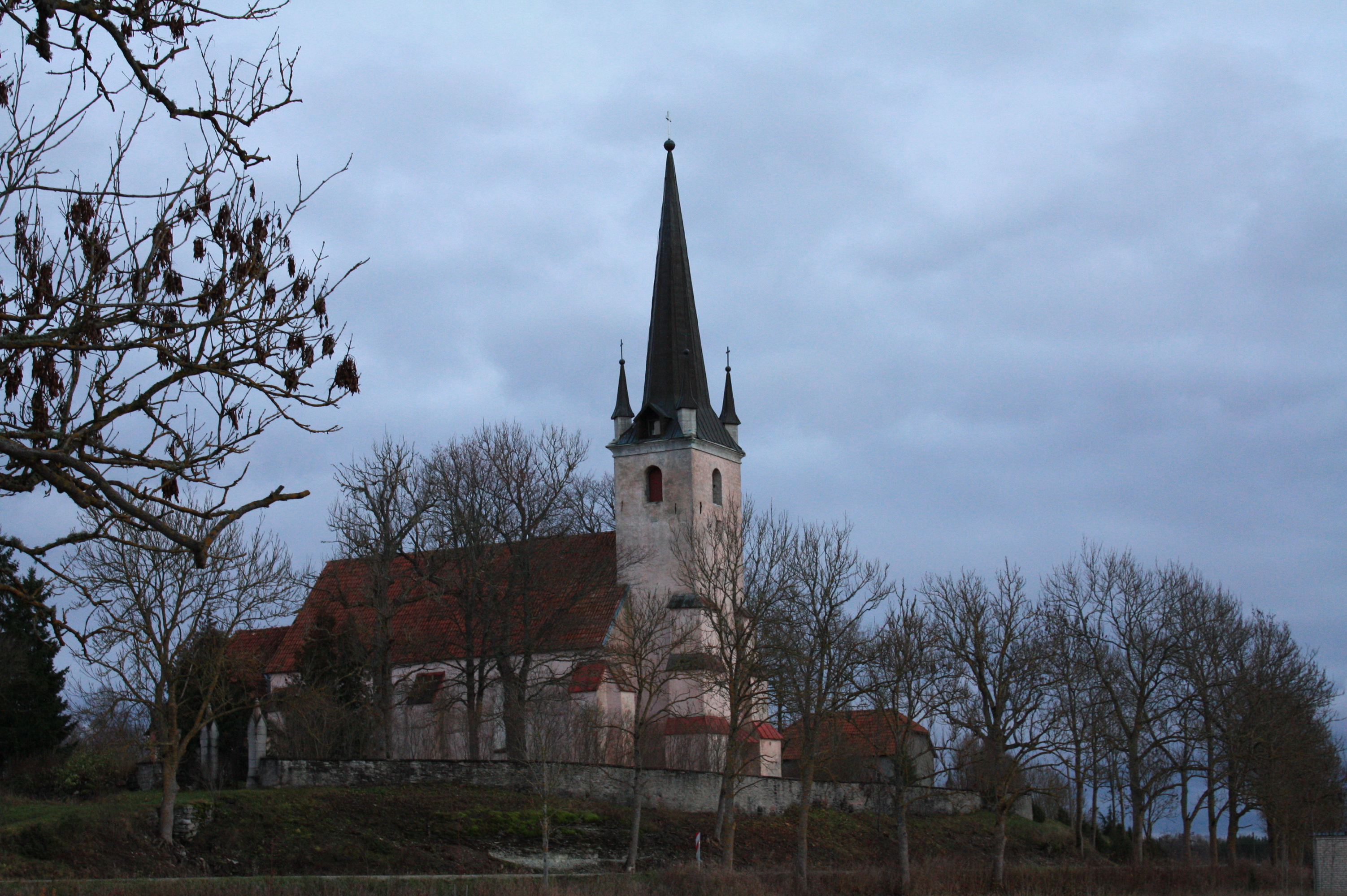 Madise church